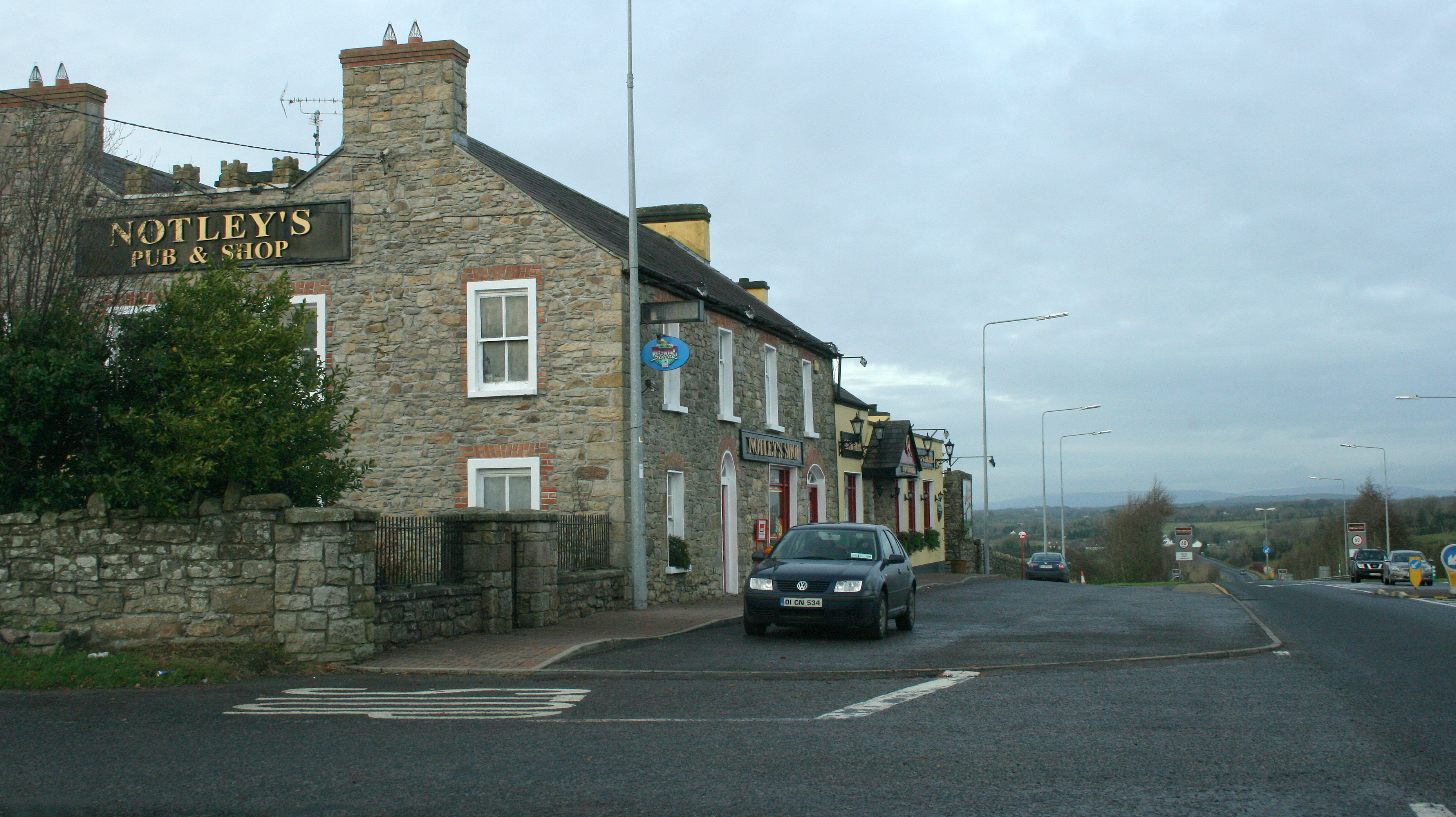 The N4 passing through Aghamore